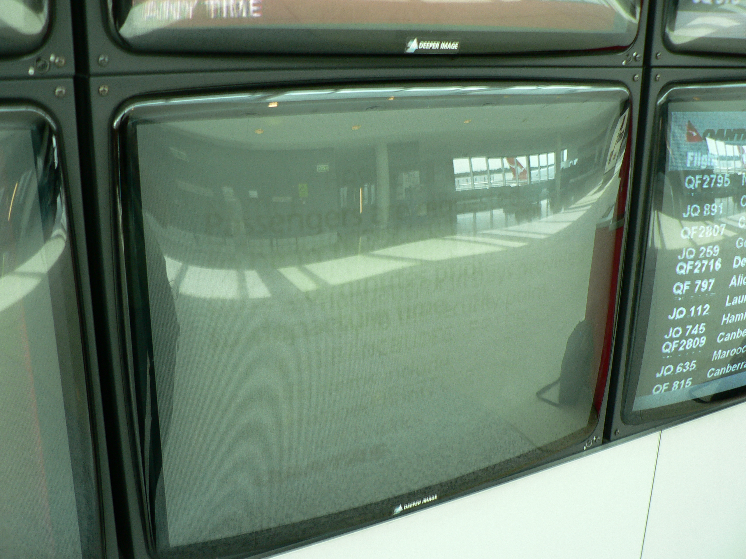 Phosphor burn-in seen at Melbourne Airport, Qantas Domestic Terminal 1 (T1). The TV set usually cycles its display between a small number of stills of information, which remain visible, even when the display is switched off, as overlaid burnt-in images. One screen, which has been burnt-in, reads "Passengers are requested to be in the departure gate 20 minutes prior to departure time." with a Qantas logo.